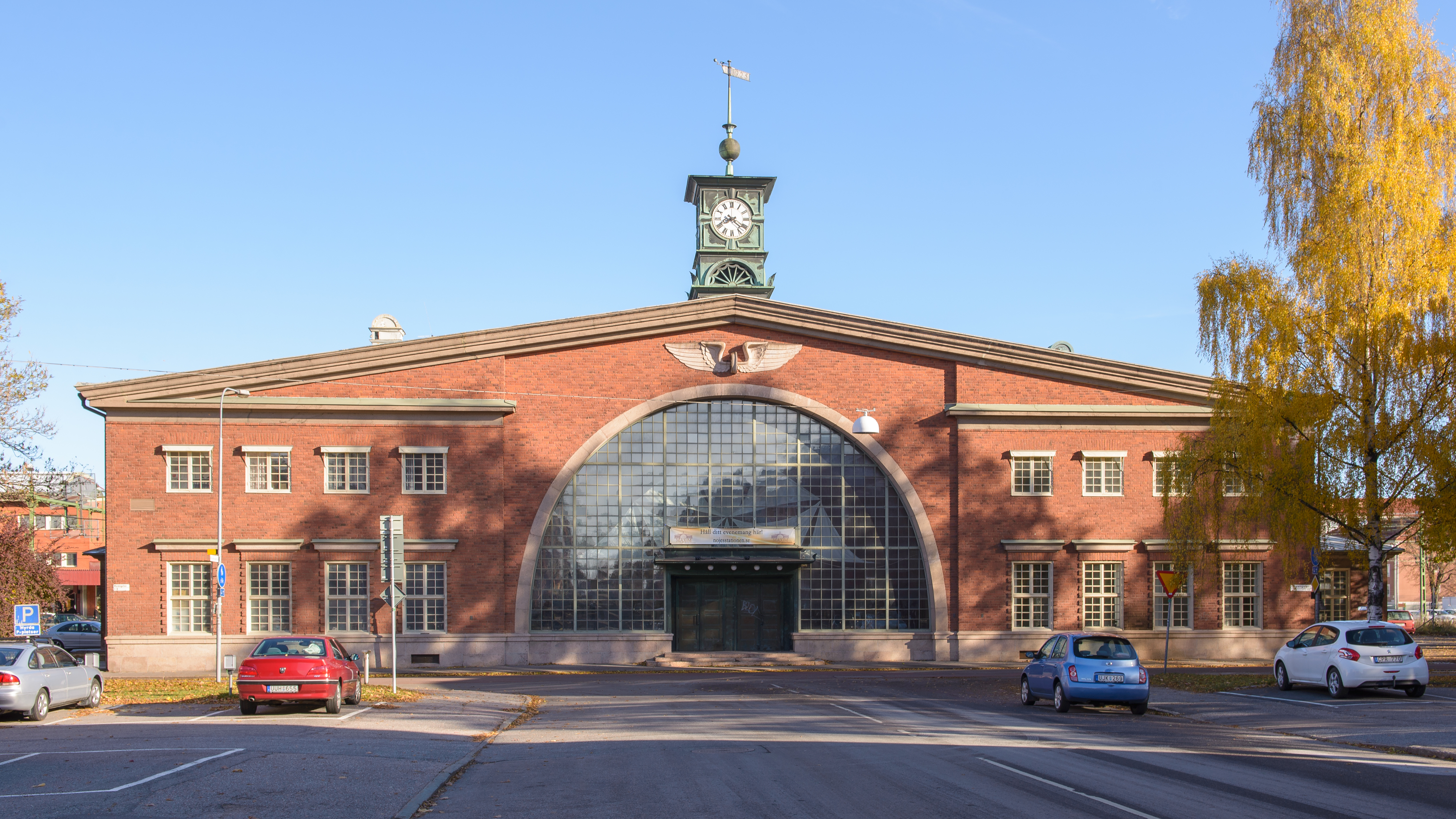 Former railway station Gävle södra station (Gävle south). Built 1925-26, architect Gunnar Wetterling.